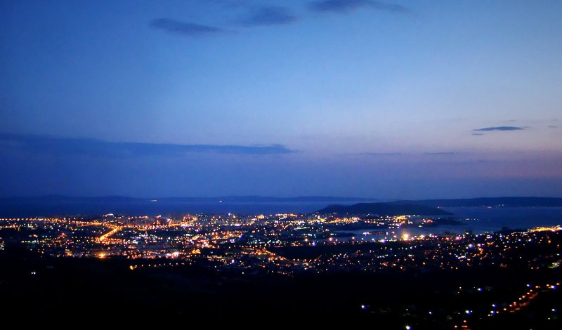 This was taken from the Klis fortress, above the city of Split